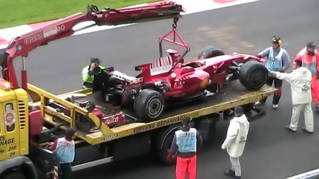 Kimi Räikkönen's crashed Ferrari after the 2008 Belgian Grand Prix.